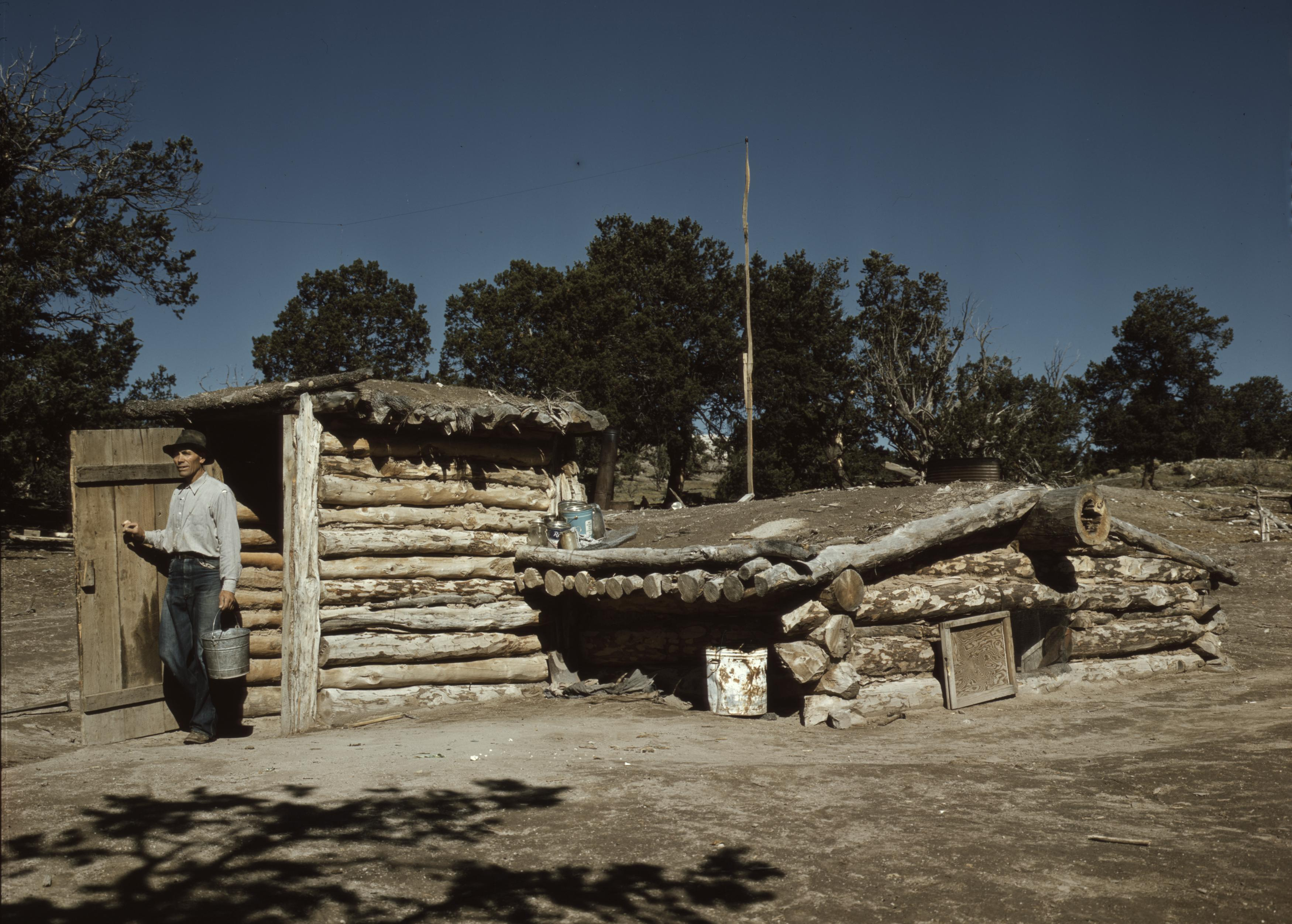 Mr. Leatherman, homesteader, coming out of his dugout home, Pie Town, New Mexico